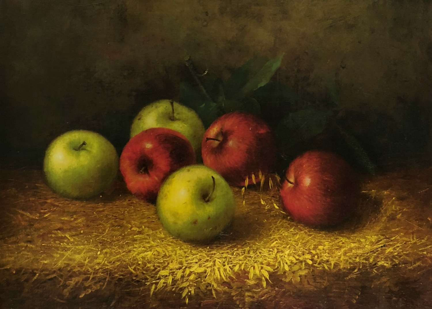 Apples on the Ground, oil on canvas, Wadsworth Atheneum Museum of Art, Hartford, Conn